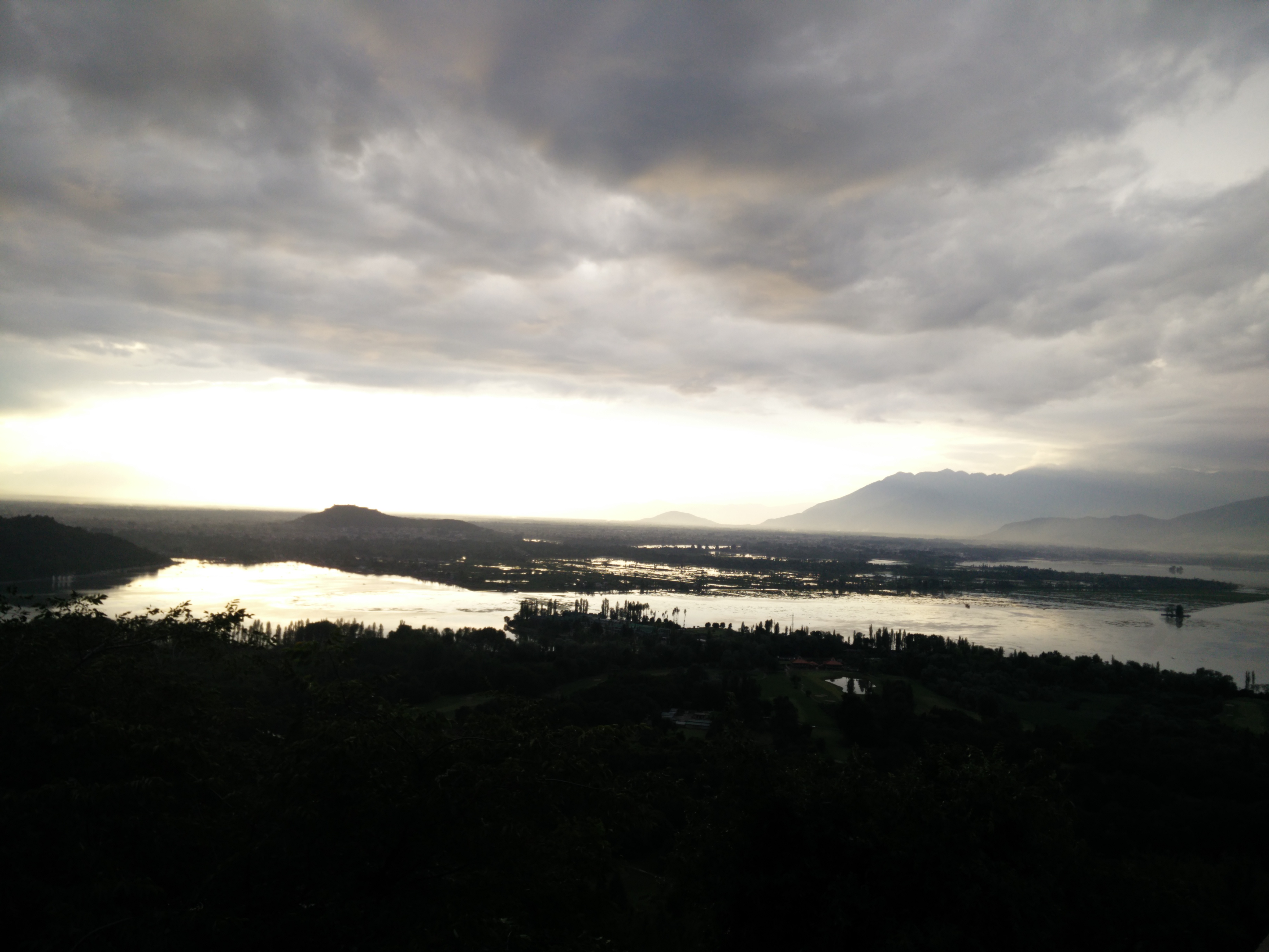 Dal Lake in srinagar